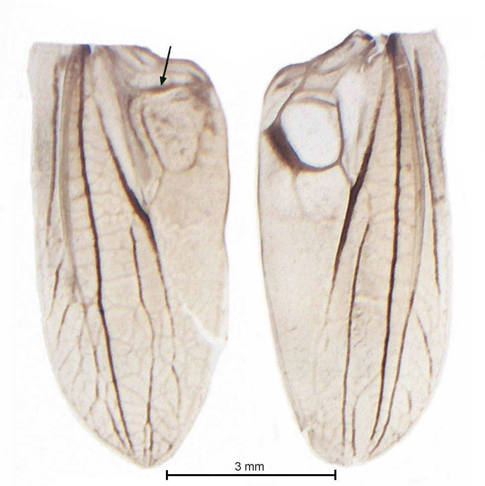 Left and right forewing of an adult male. The arrow indicates the file carrying the teeth that are used for sound production